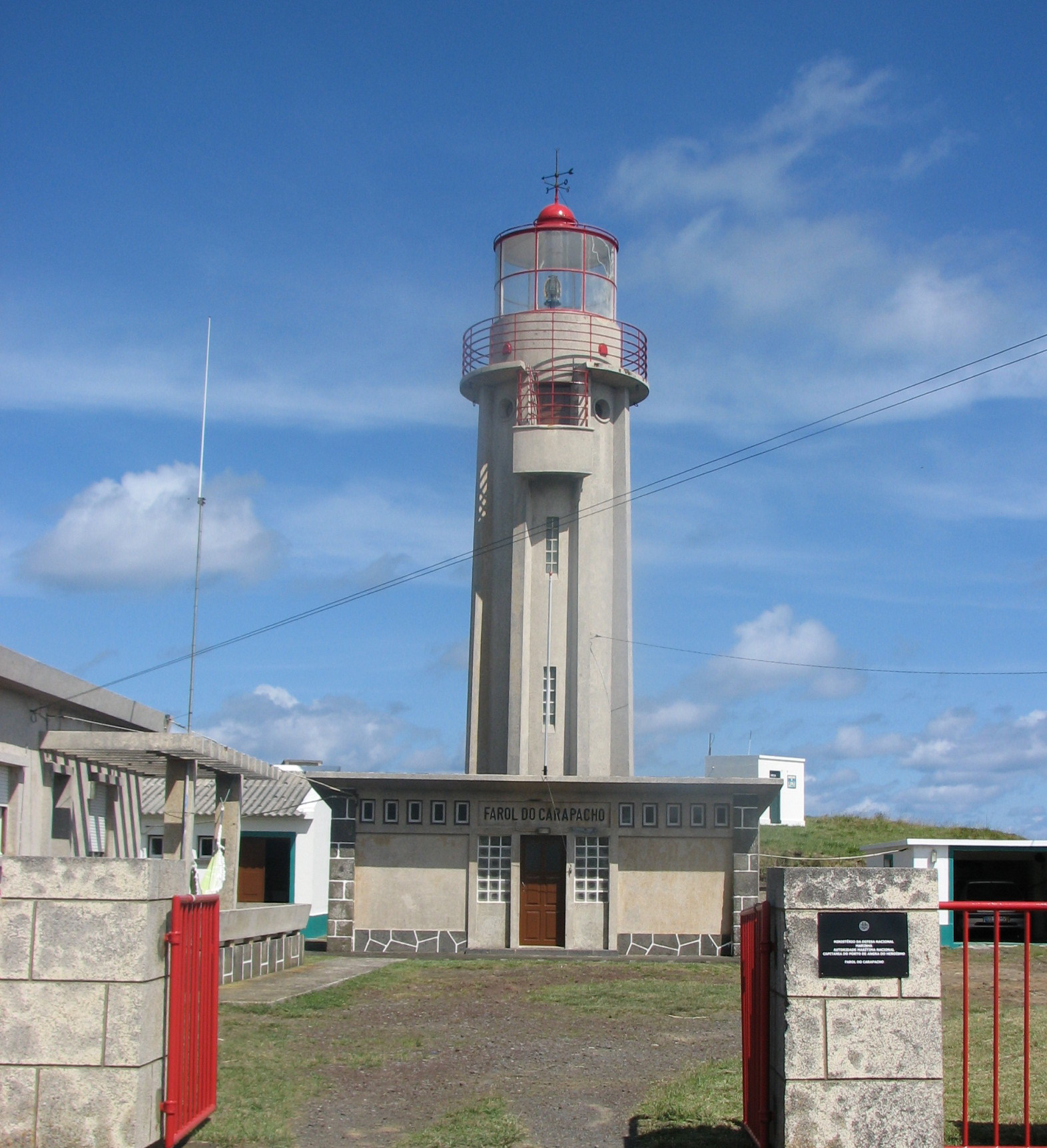 Lighthouse of Carapacho, or Ponta da Restinga, Graciosa, Azores.